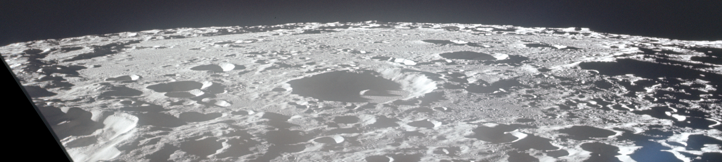 Oblique view of Korolev, facing north, on the far side of the moon.